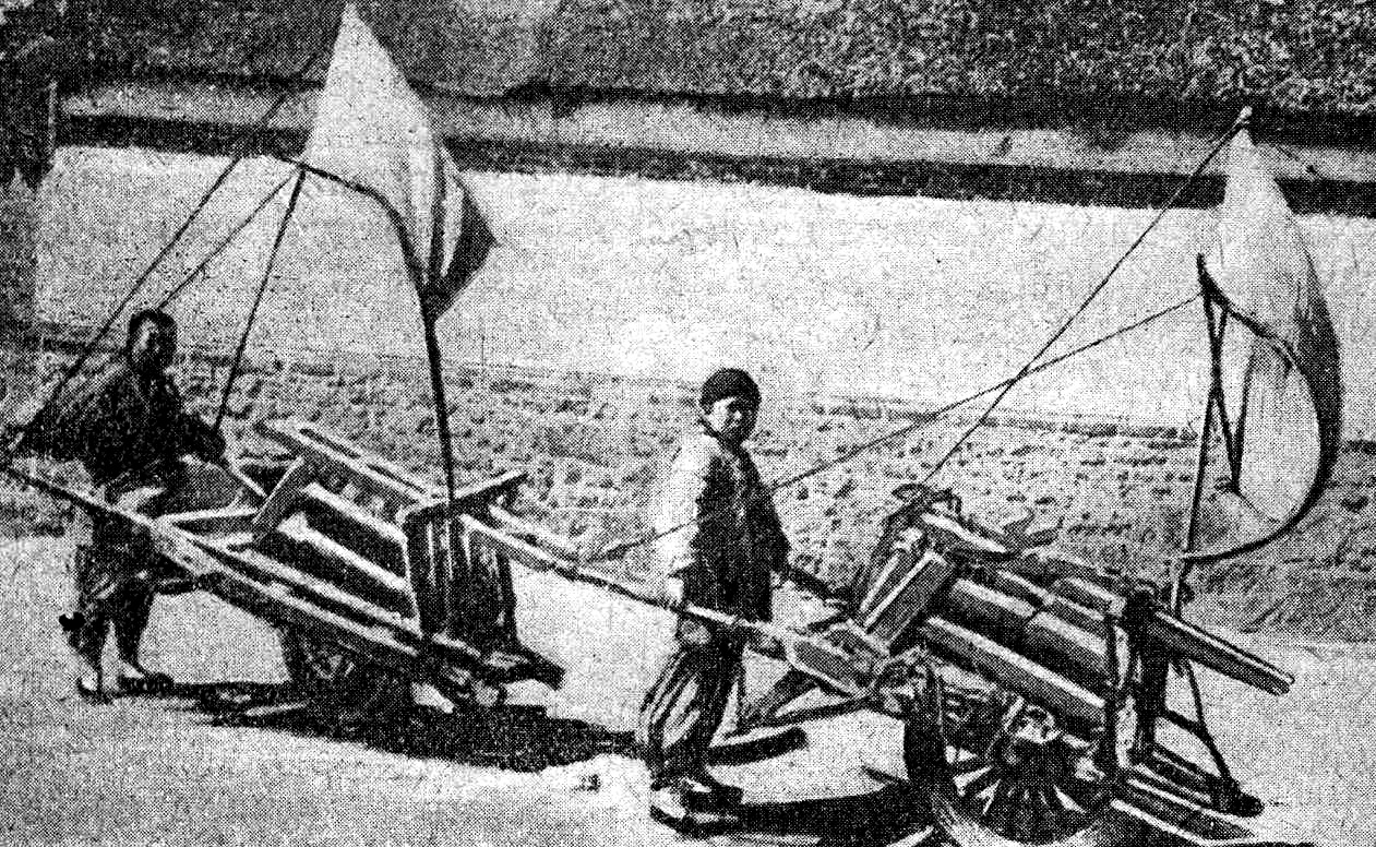 Wheelbarrows with sails in China